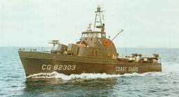 1960: The first 82 foot cutter assigned to Grand Isle was United States Coast Guard Cutter (USCGC) POINT YOUNG (WPB 82303) from 1960 to 1965.